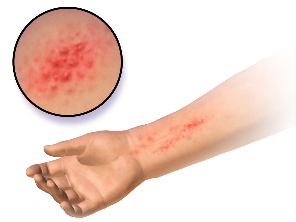 Allergic Dermatitis. This image was donated by Blausen Medical. Please visit our website to see more medical illustrations and animations.